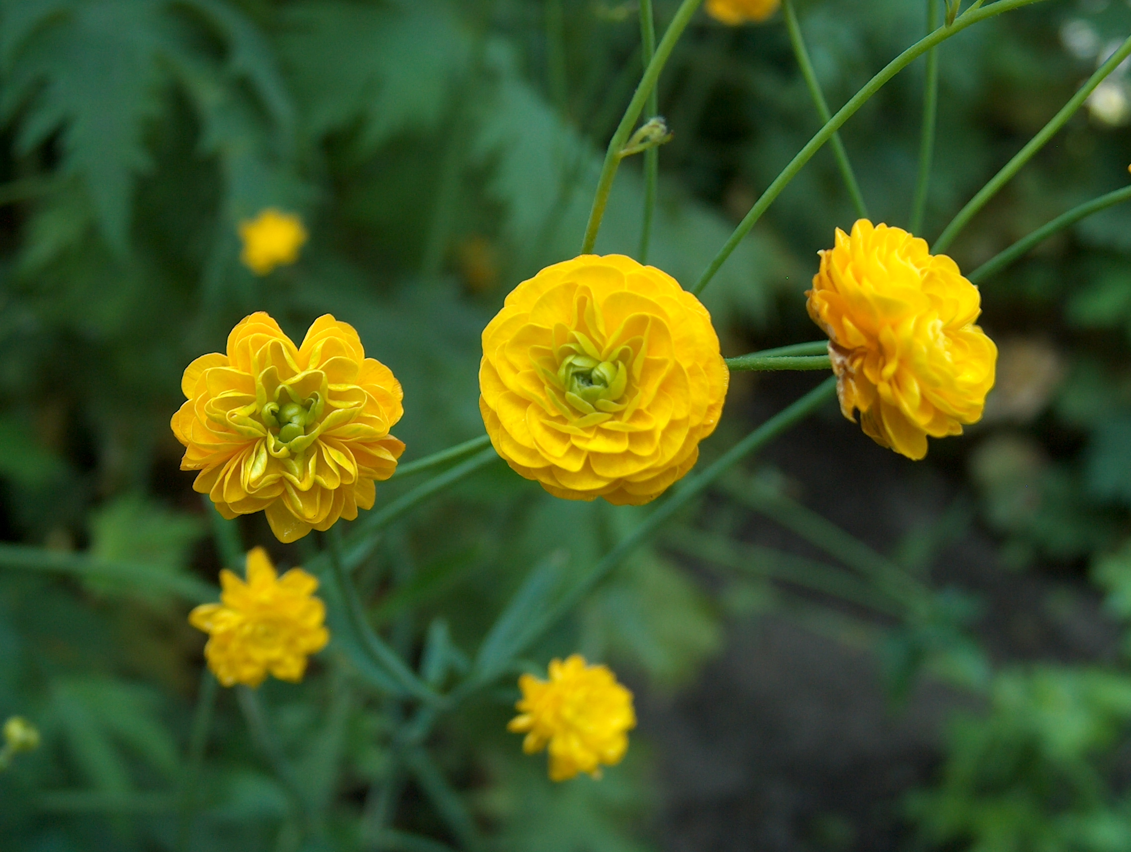 Meadow Buttercup or Tall Buttercup (Ranunculus acris 'Multiplex') in The University of Helsinki Botanical Garden in Kaisaniemi